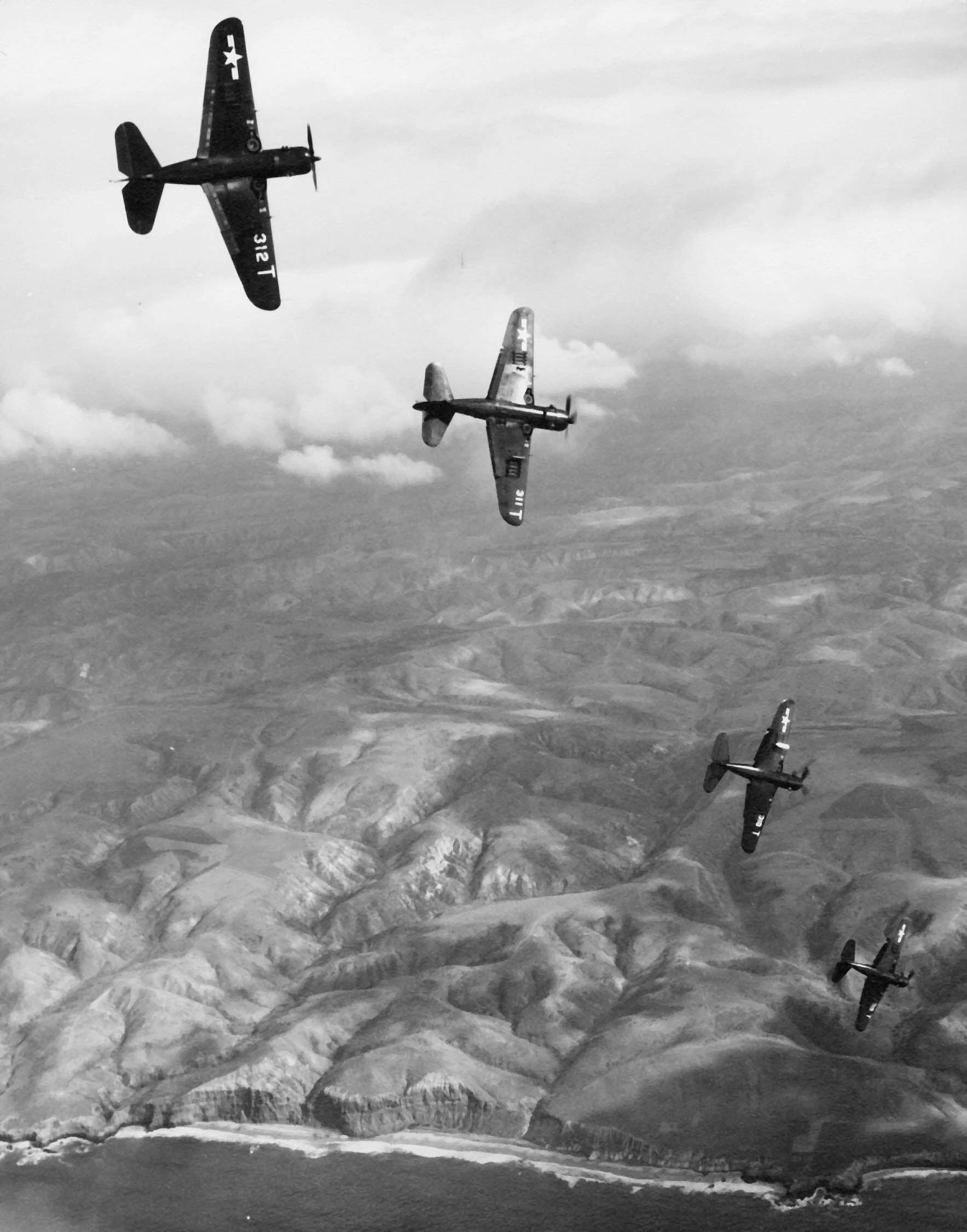 U.S. Navy Curtiss SB2C-5 Helldivers of Attack Squadron 1A (VA-1A) "Tophatters" roll into dives to support amphibious forces during postwar landing exercise. VA-1A was known as VB-4 before being redesignated in November 1946. VA-1A was assigned to Carrier Air Group 1 (CVAG-1) aboard the aircraft carrier USS Tarawa (CV-40).